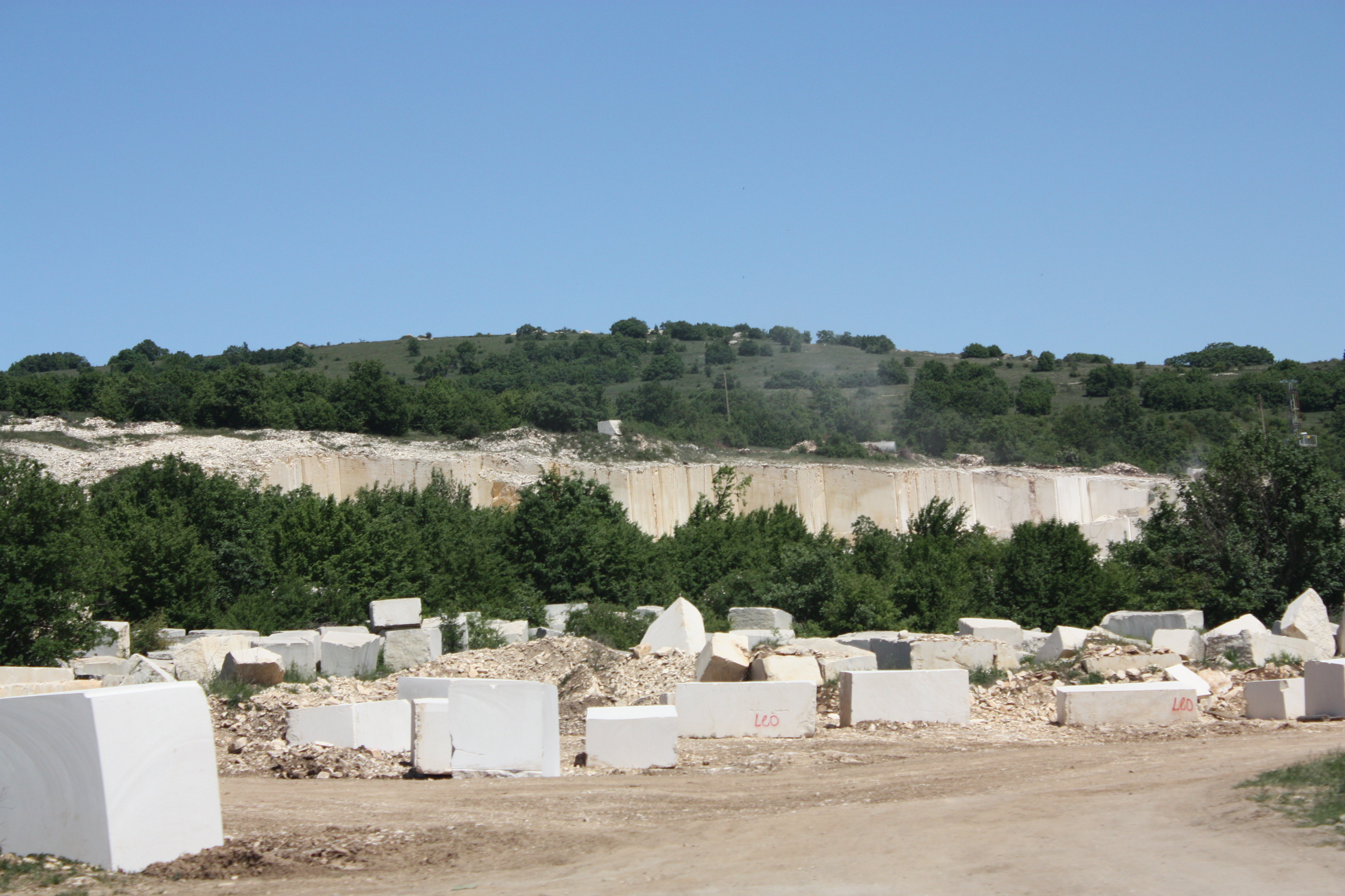 Gorna Kremena quarry, Bulgaria